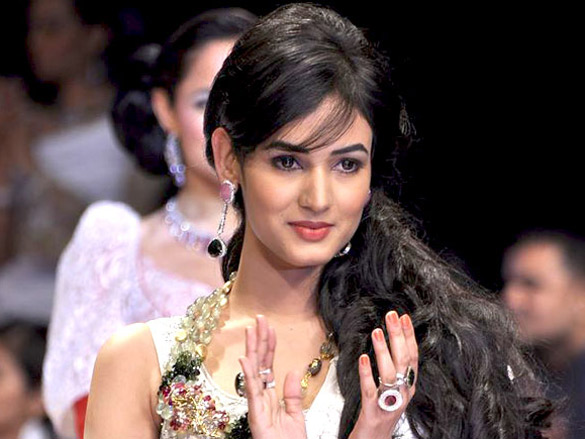 Sonal Chauhan walks the ramp for YS 18